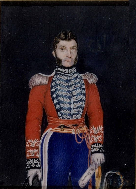 Painting, miniature, Col. Michel Louis Juchereau Duchesnay, about 1808, Cromwell, 12 x 8.6 cm